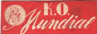 Logo of the weekly Argentine box magazine, K.O. Mundial.